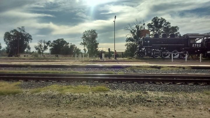 ESTACION FERROCARRIL BHILL SONORA